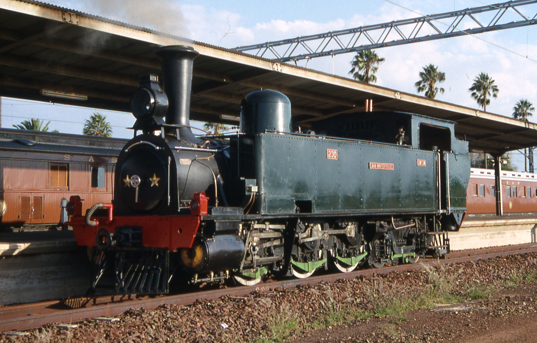 NZASM (Nederlandsche-Zuid-Afrikaansche Spoorwegmaatschappij) 46 Tonner (0-6-4T) tank locomotive (subsequently SAR Class B locomotive), number 230 ”Jan Wintervogel”, at Witbank railway station, Transvaal (now Mpumalanga), South Africa in NZASM livery. This particular locomotive, manufactured by the German company Maschinenfabrik Esslingen was delivered to the South African Republic in 1898, the year before the outbreak of the Boer War.